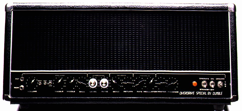 Front panel of 150W Overdrive Special by Dumble